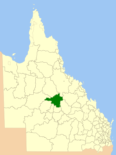 Location of the Local Government Area in Queensland